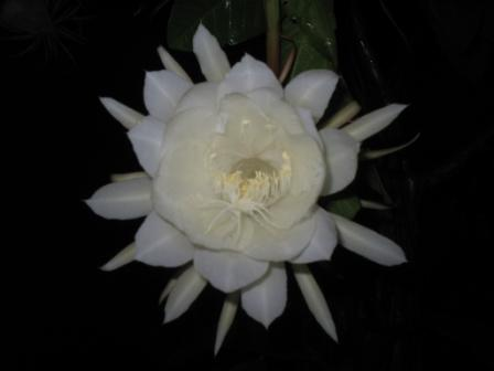 In full bloom.Taken near Thodupuzha, Idukki, Kerala, India